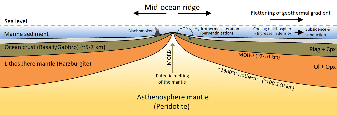 Based on diagram in Commons File:Mittelozeanischer Ruecken - Schema.png. I translated it from German to English and revised outlines of rock units.